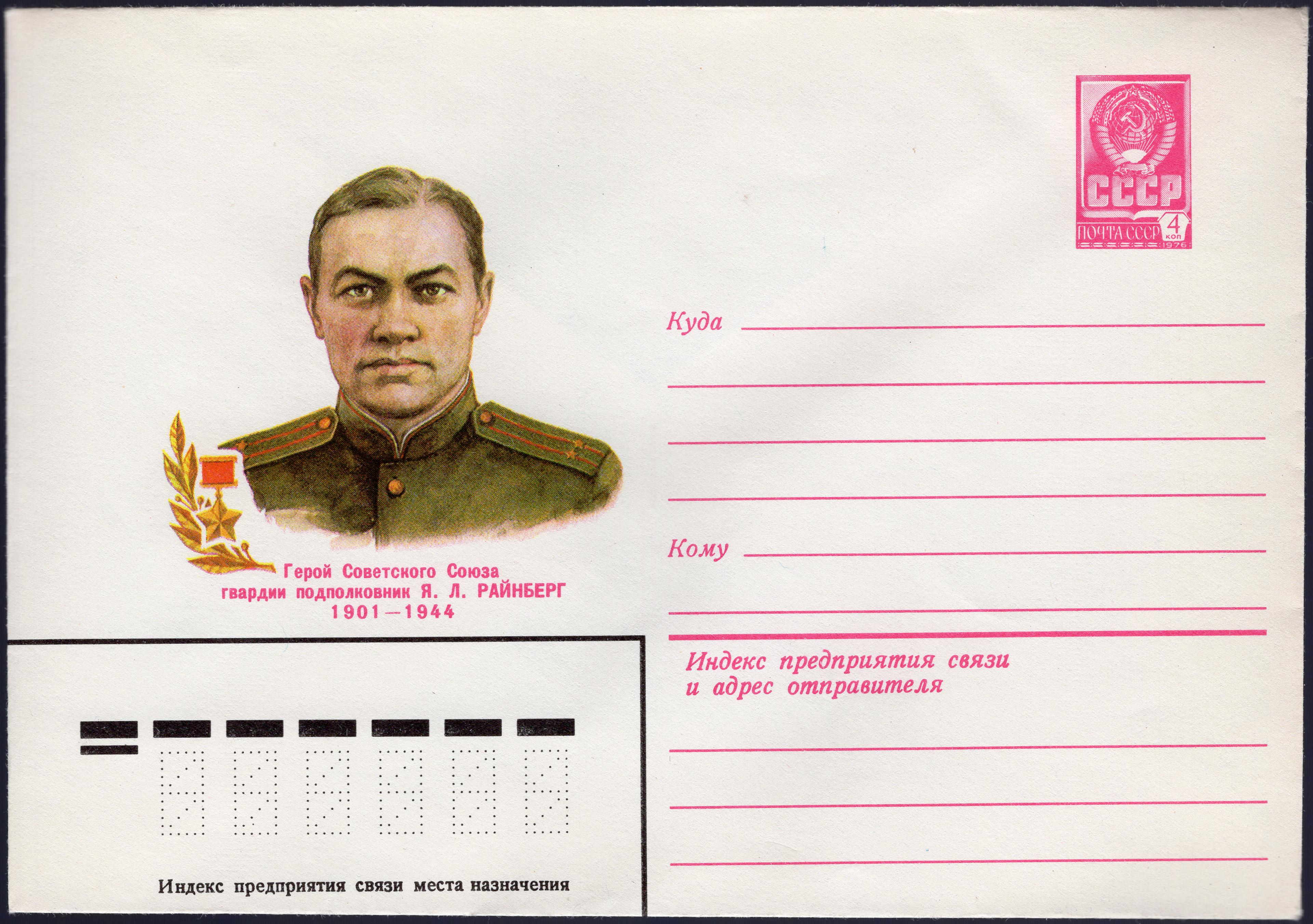 Hero of the Soviet Union Guards Lieutenant Colonel :c:Category:|Jānis Rainbergs . 1901-1944. Series: Heroes of the Soviet Union. Artist Ignatyev N.